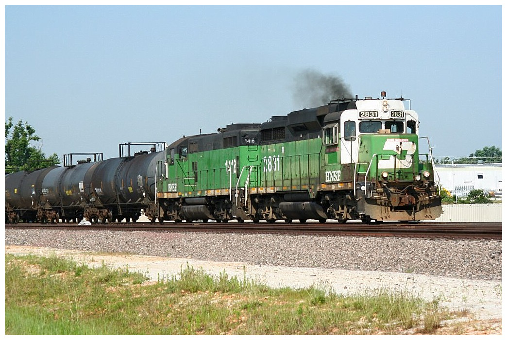 Burlington Northern Santa Fe 2831, MK GP39M [1]